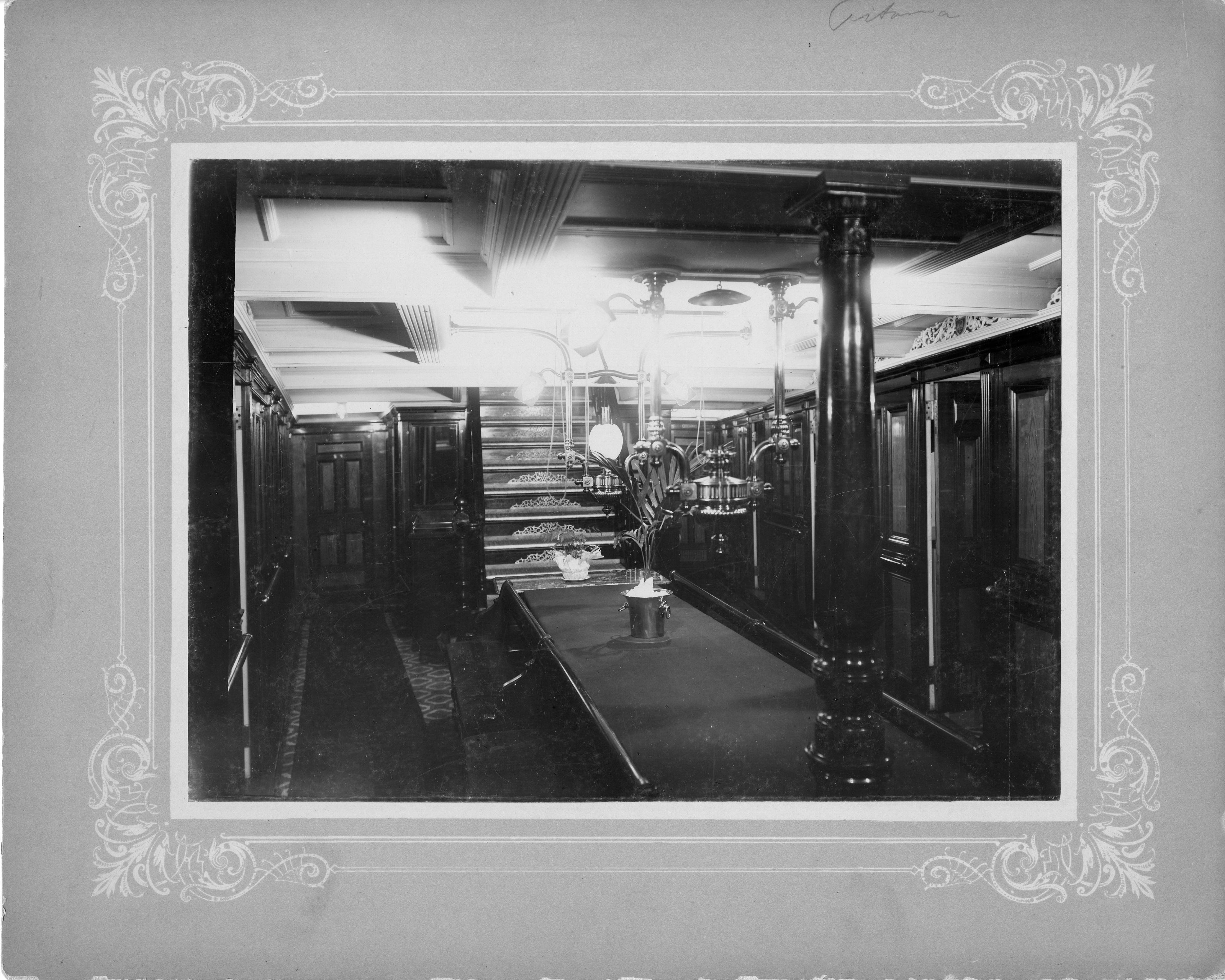 Interior onboard s/s Titania, 1907-1918